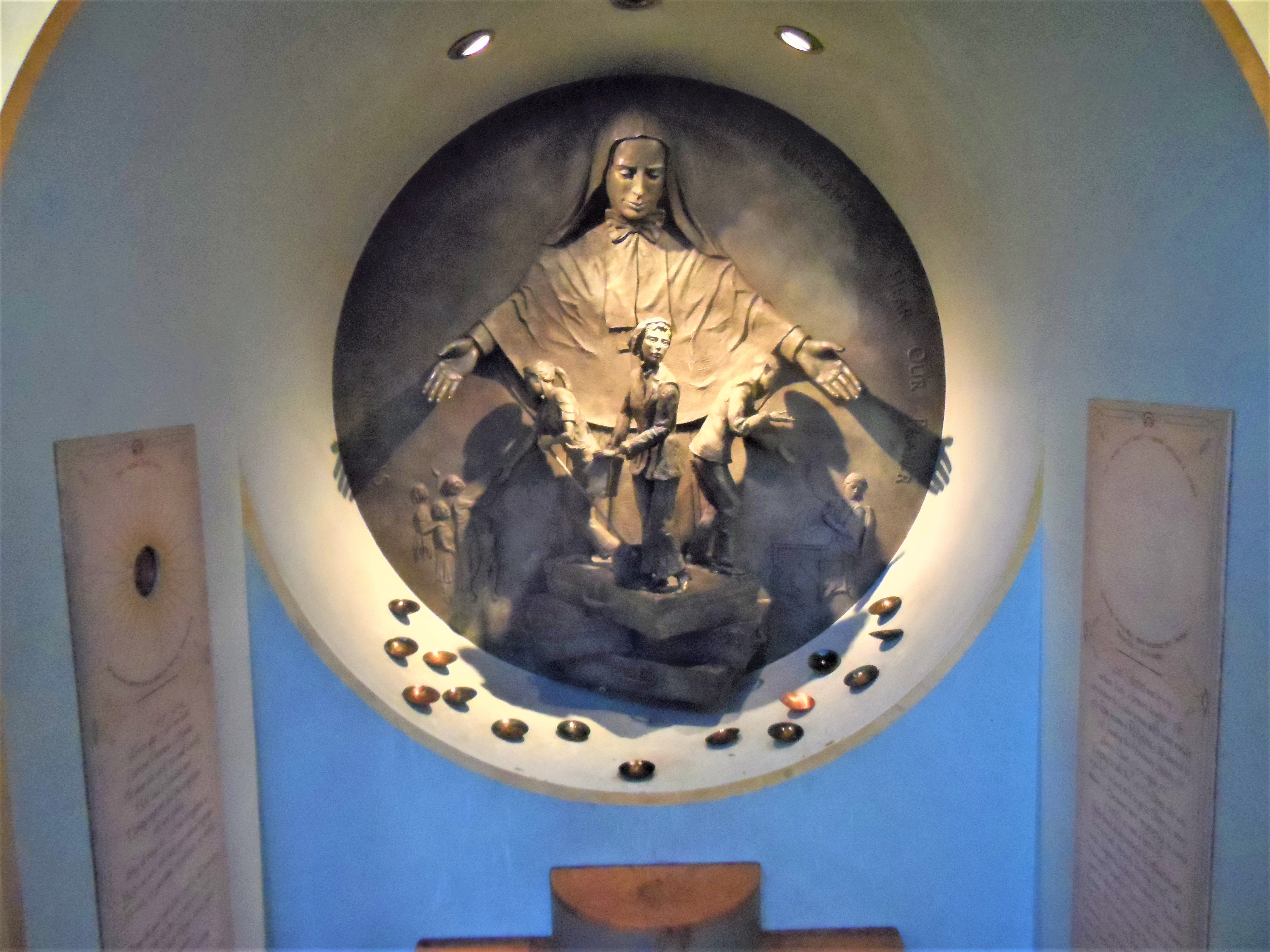 Shrine to Saint Frances Xavier Cabrini, designed by brothers Theodore, James, and Gabriel Gillick, in Saint George's Cathedral, Southwark, London. The bronze sculpture depicts the saint watching over a group of migrants standing on a pile of suitcases. Documented at .